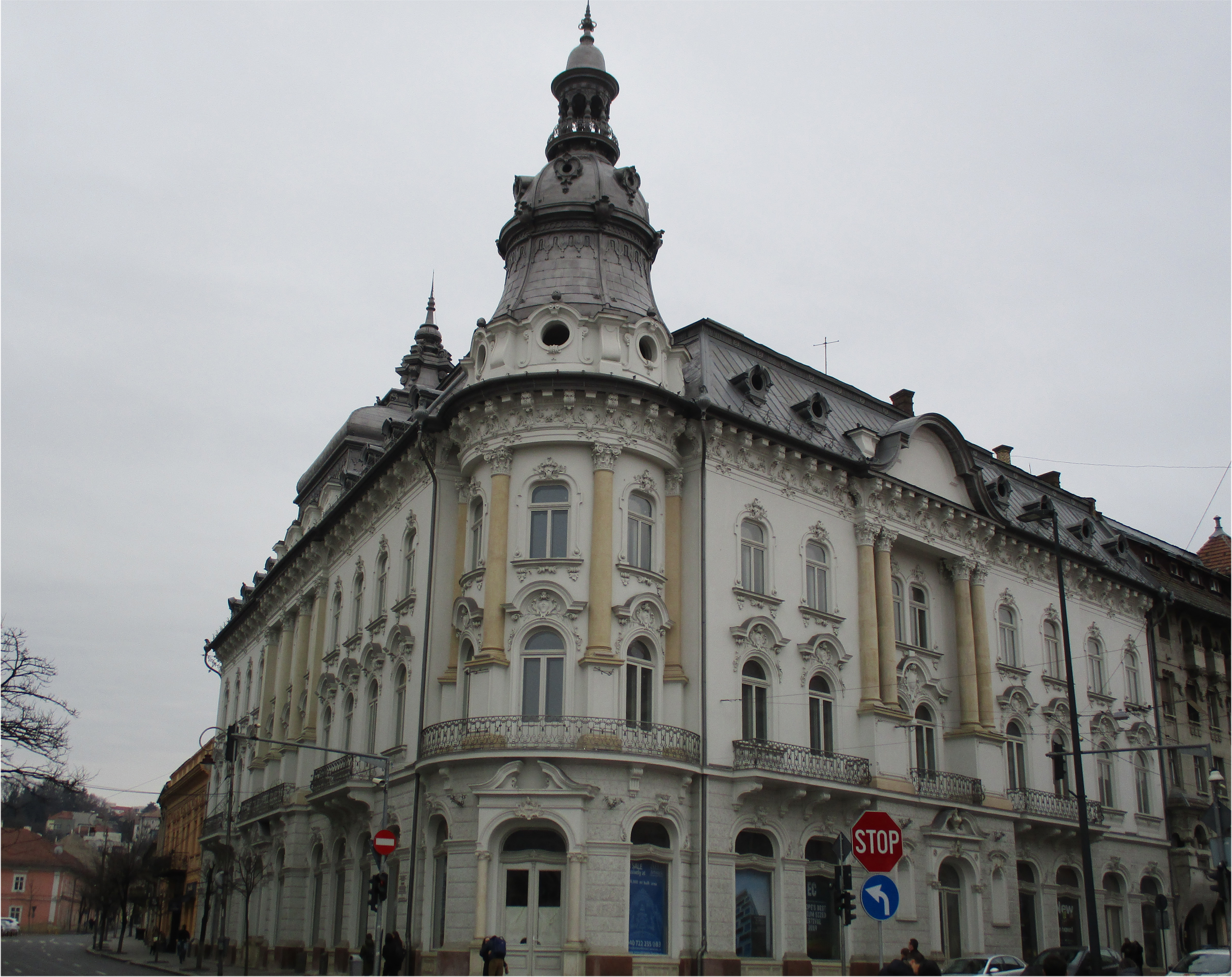 Former New York (later Continental) hotel in Cluj-Napoca, Romania